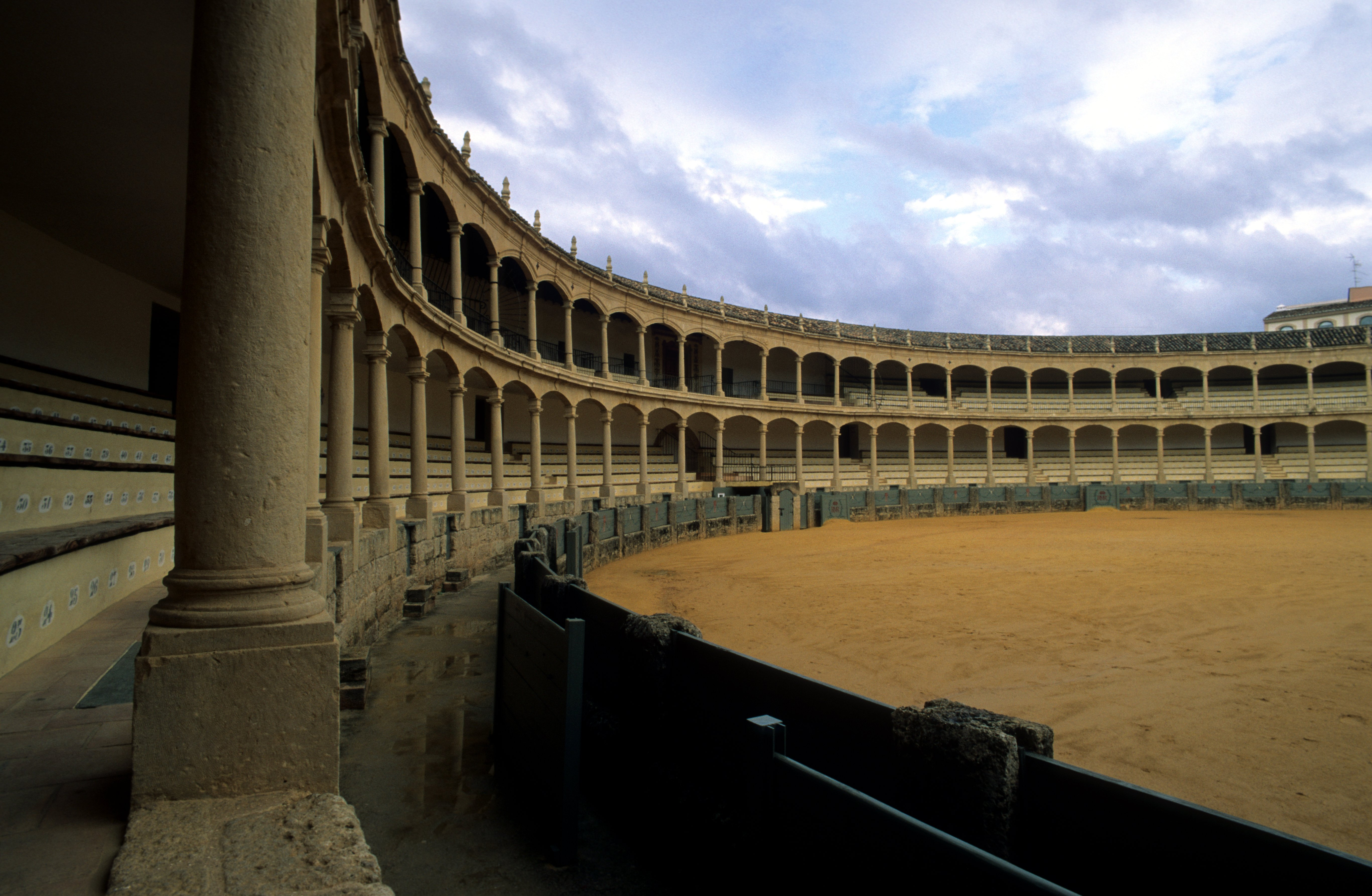 Bull fight ring, Ronda, Spain